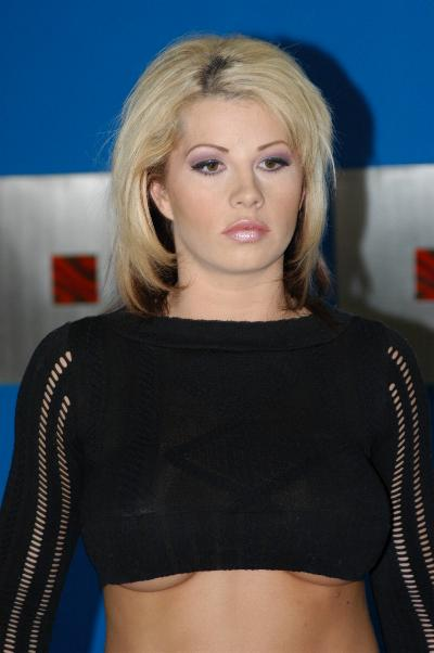 Brooke Haven on Set Of DCypher's Taboo 22 From Metro, June 06 2006